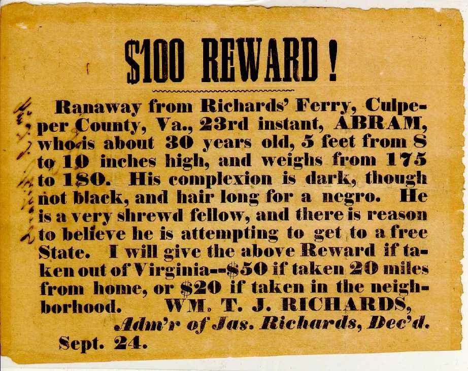 A $100 bounty for a runaway slave named Abram from Richards' Ferry, Culpeper County, Virginia.